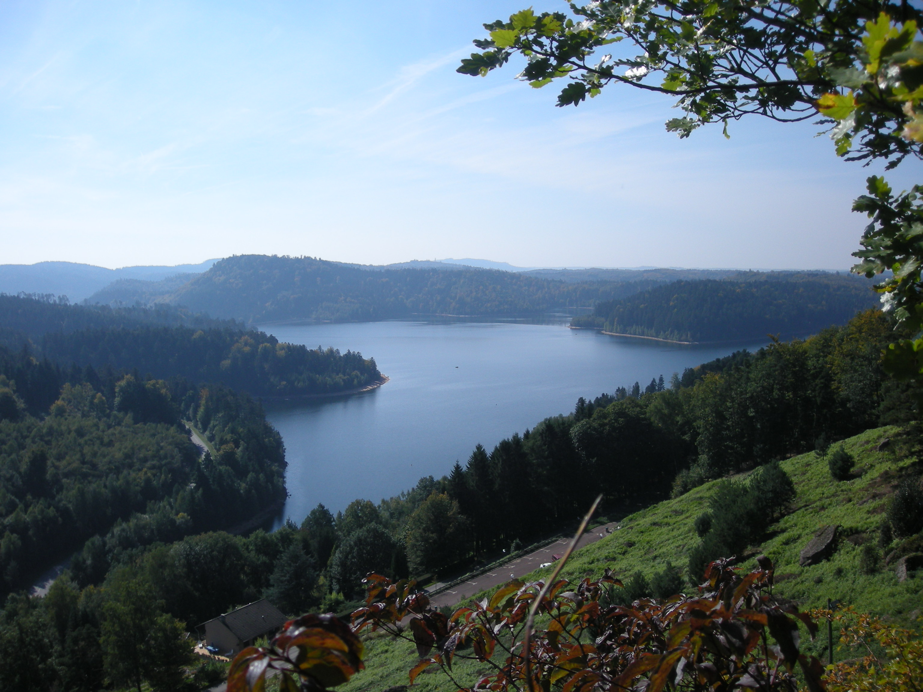 Lac de Pierre-Percée (artificial lake in Lorraine, France)